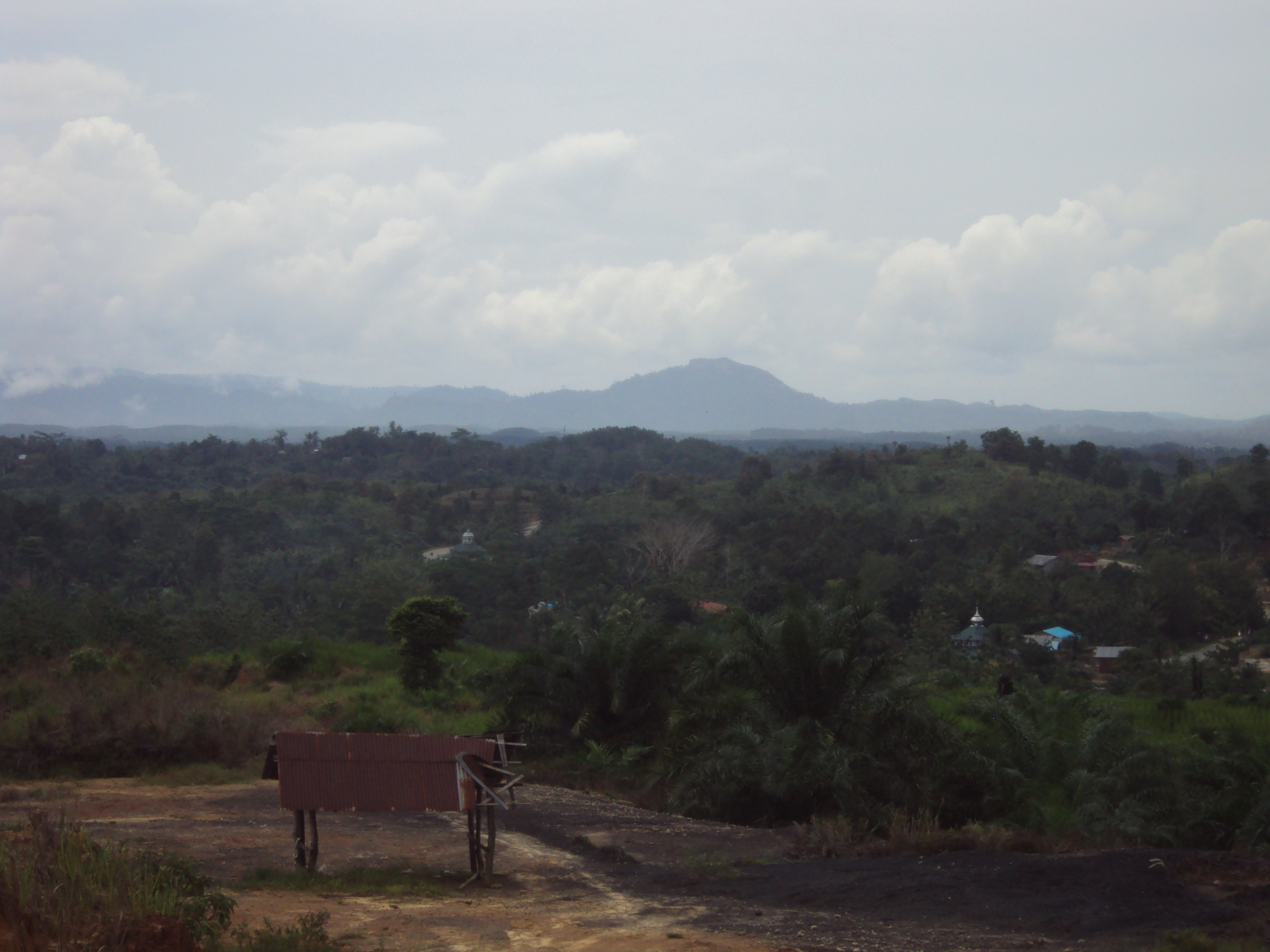 Highest Mountain in the Eastern Borneo Province